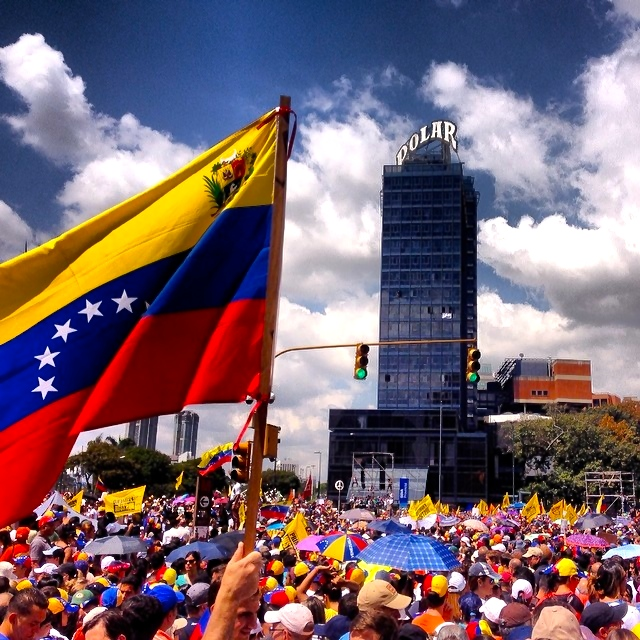 Peaceful protestors demonstrating in Caracas, Venezuela. Photo: Diego Urdaneta